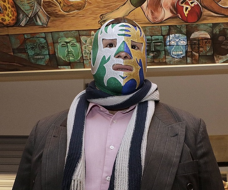 Viernes 30 de noviembre de 2018Arena México, ceremonia de develación de la placa conmemorativa por el reciente decreto de la Lucha Libre como Patrimonio Cultural Intangible de la Ciudad de México, estuvieron presentes autoridades del Consejo Mundial de Lucha Libre, y autoridades del gobierno de la CMDX, entre ellos Gabriela López Torres, coordinadora de Patrimonio Histórico Artístico y Cultural de la Secretaría de Cultura de la CDMX, además de invitados especiales.Fotografía: Tania Victoria/ Secretaría de Cultura CDMX